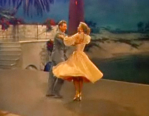 Cropped screenshot of Danny Kaye and Vera-Ellen from the trailer for the film White Christmas